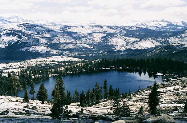 May Lake, Yosemite National Park